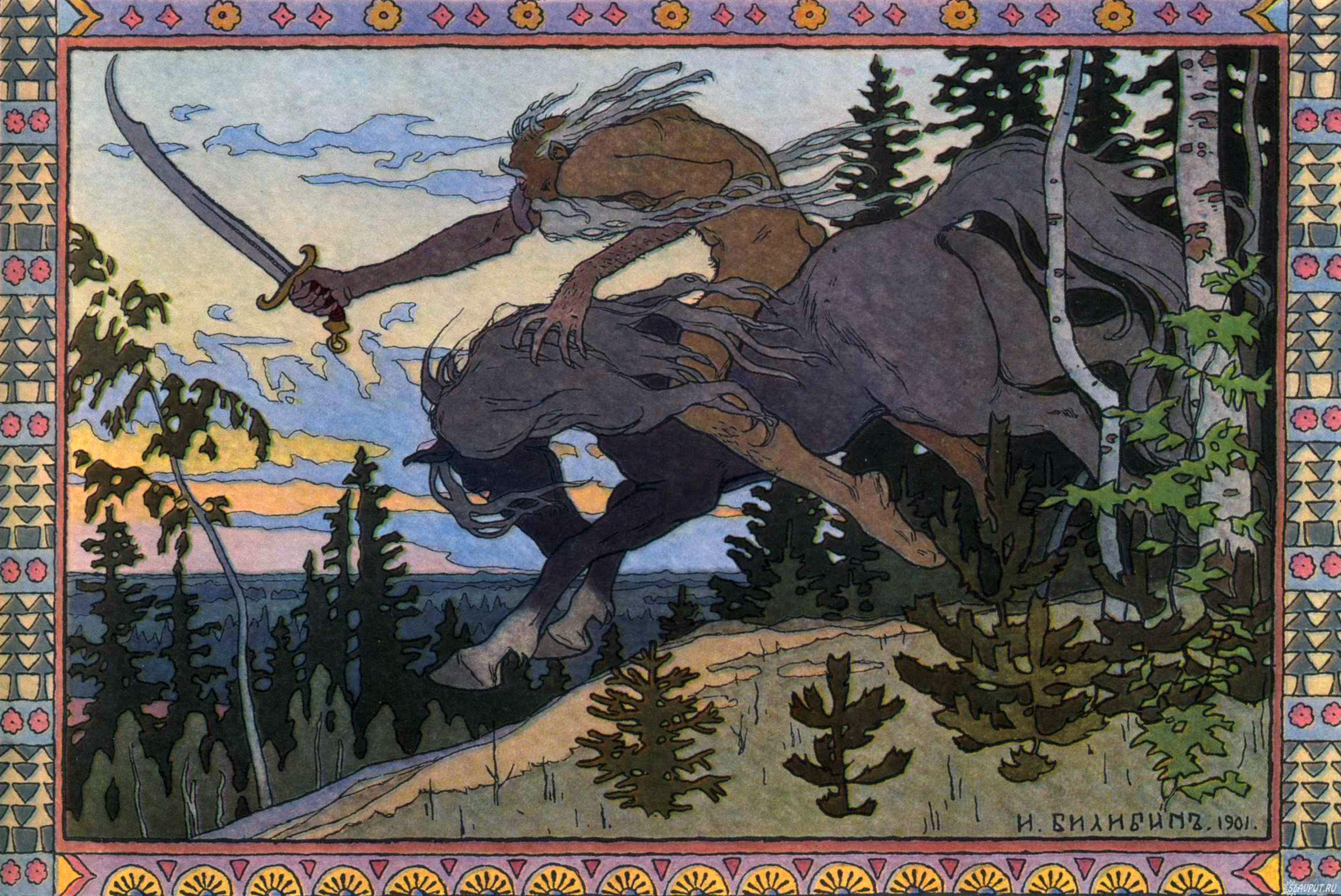 Maria Morevna 5